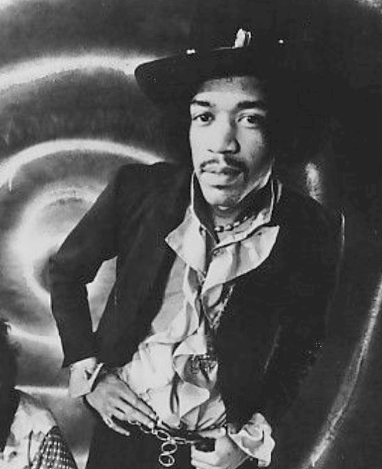 Photo of the Jimi Hendrix Experience.